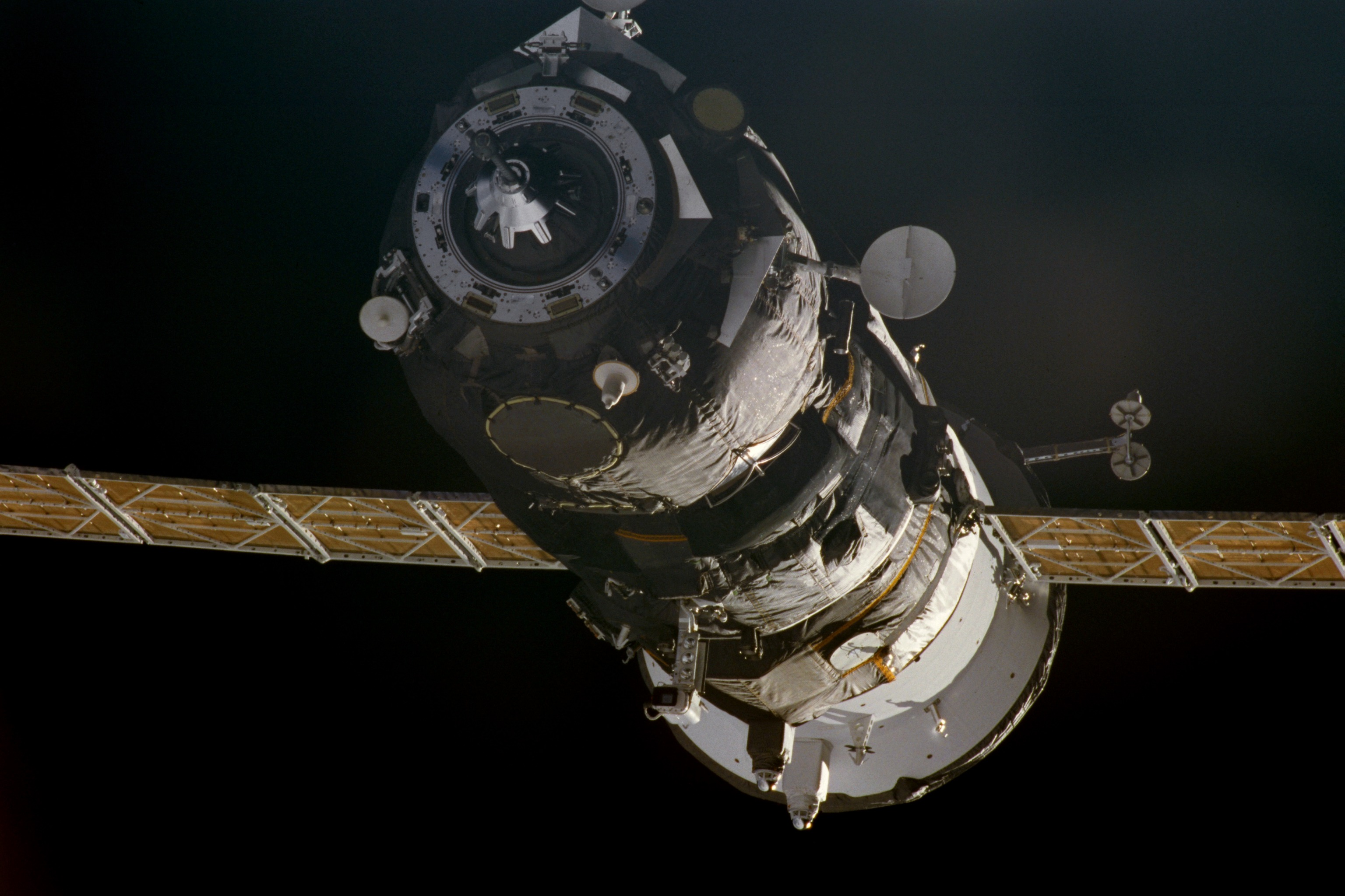 A Progress supply ship linked up to the orbiting International Space Station (ISS) at 3:48 GMT, November 18, bringing Expedition One commander William M. Shepherd, pilot Yuri P. Gidzenko and flight engineer Sergei K. Krikalev two tons of food, clothing, hardware and holiday gifts from their families. The photograph was taken with a 35mm camera and the film was later handed over to the STS-97 crew members for return to Earth and subsequent processing.